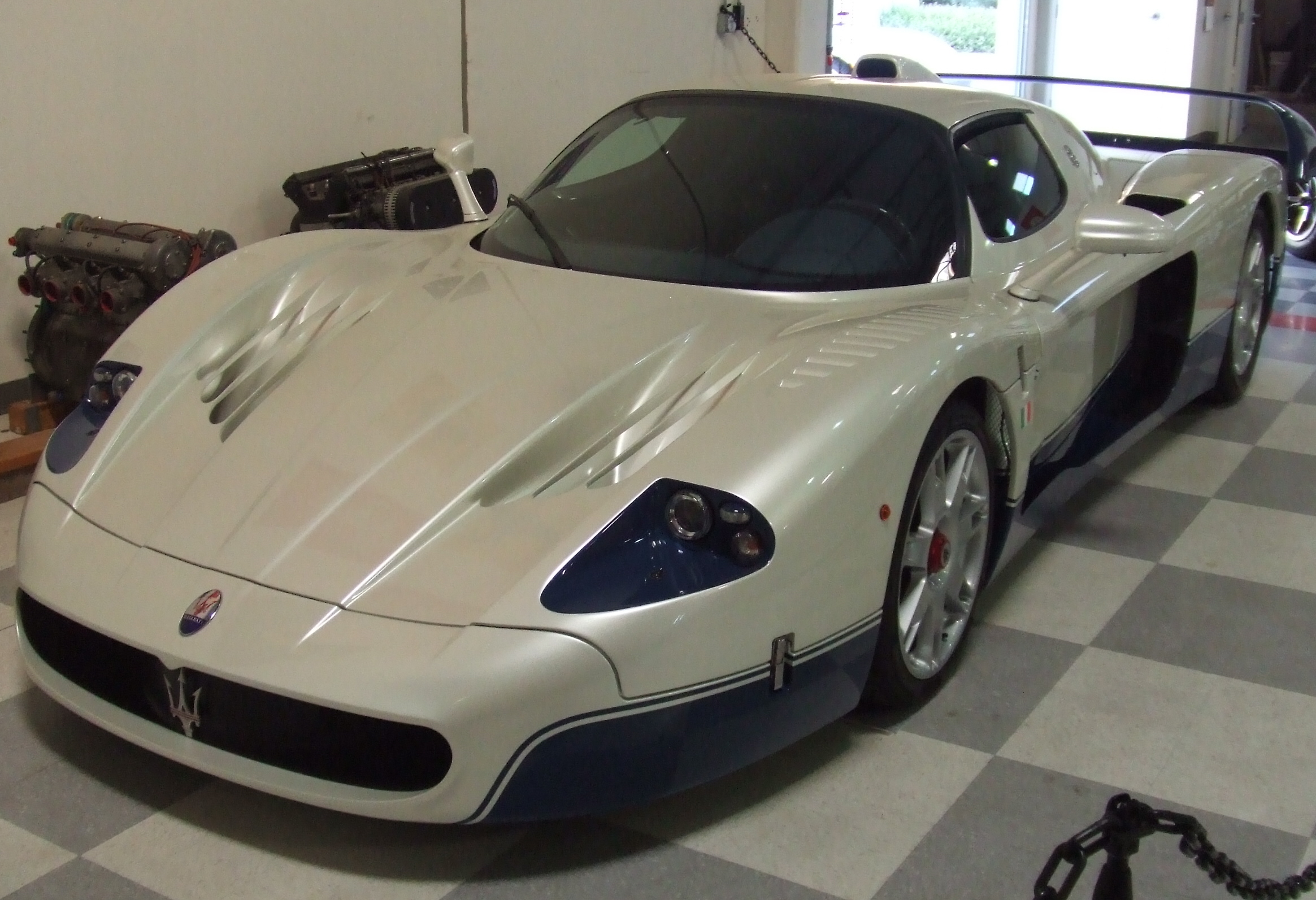 2006 Maserati MC12 Stradale at the Riverside International Automotive Museum in Riverside, California.